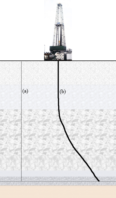 Example of 'True vertical depth', Line (a) is the 'true vertical depth', Line (b) is the borehole of an oilwell